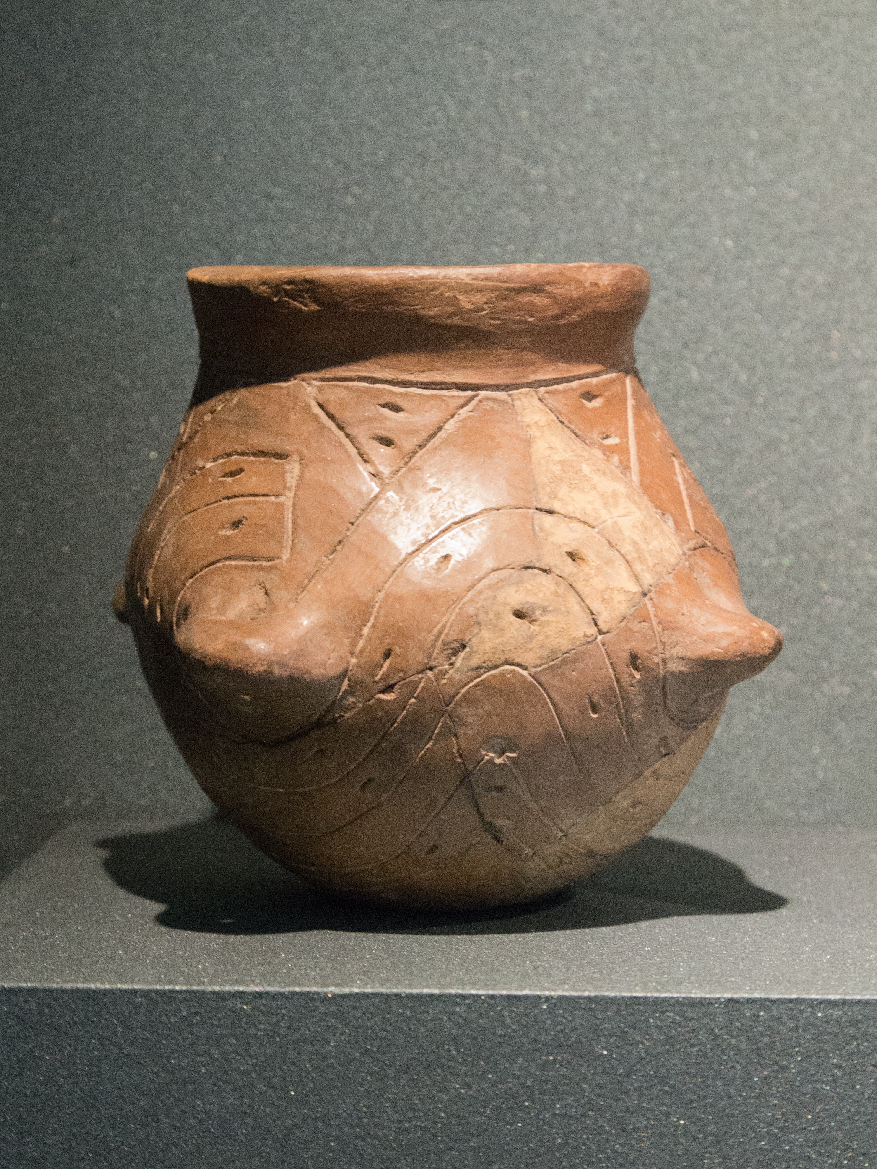 Nádoba s vodorovnými uchy na výduti a s oblým dnem, zdobená pásy rytých linií a vpichy, výška 132 mm. Neolitická kultura s lineární (volutovou) keramikou. Praha Bubeneč, hřbitov. Nejstarší keramika na území Prahy, 6. tisíciletí před n. l. Muzeum hlavního města Prahy, inv. č. A0001688.